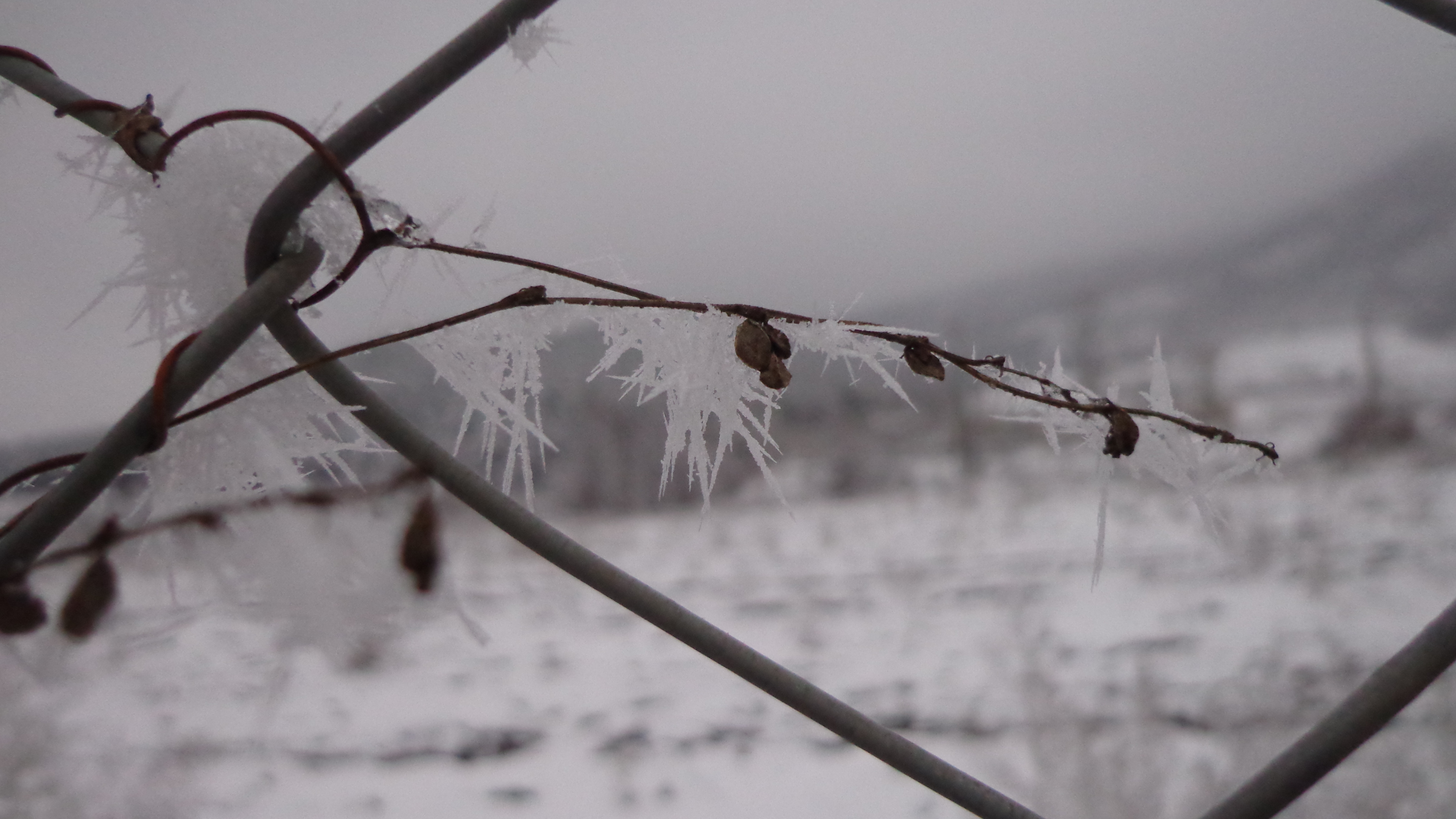 برفهای سخت رامیان معمولاً حاصل توده های زمهریر سیبریایی هستند که چهره شهر را سفید و ناودانها را پر قندیل میکنند.